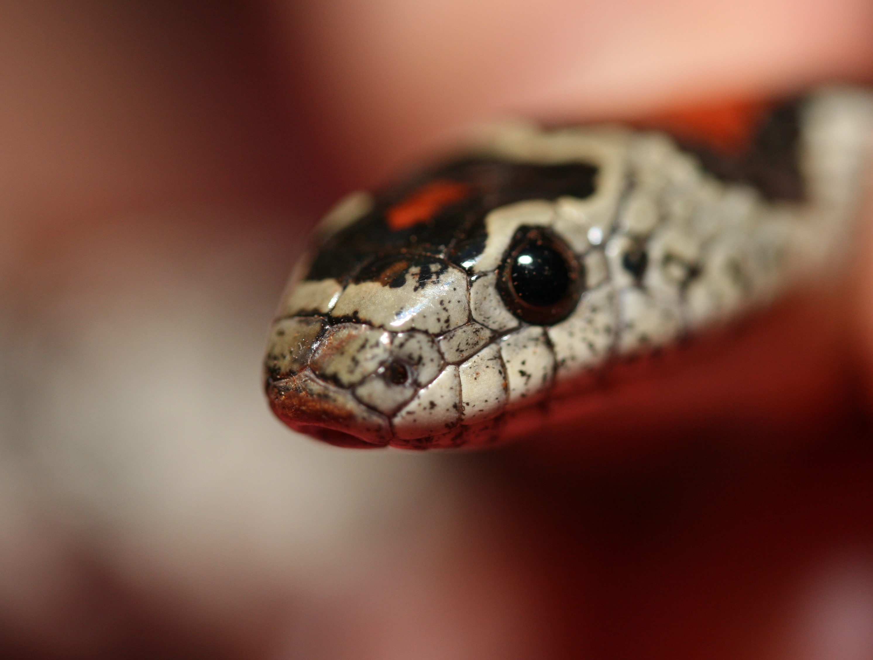 Lampropeltis Mexicana Greeri snake in private collection of Jakub Seif.